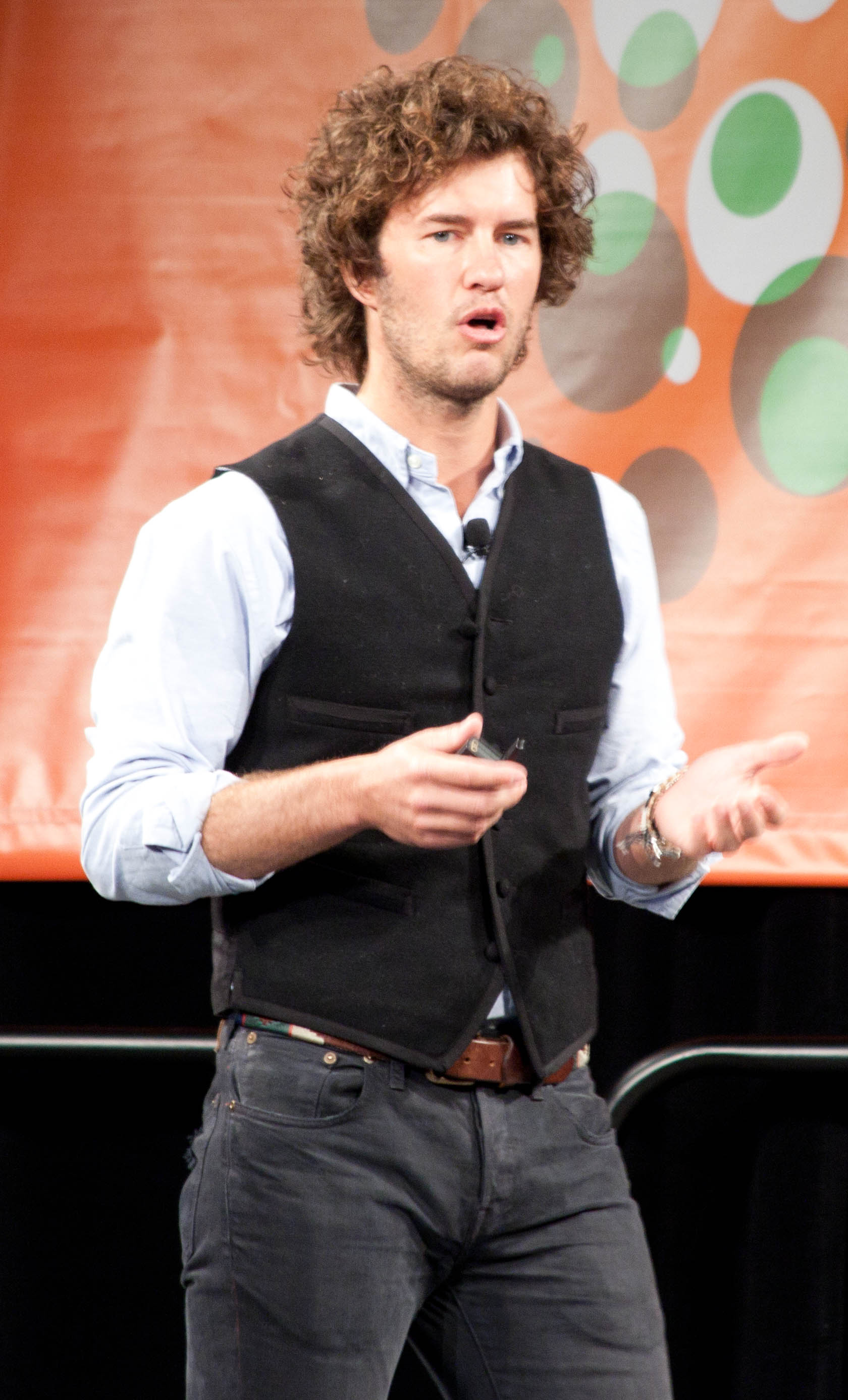 American entrepreneur and philanthropist Blake Mycoskie speaks about the power of "One for One", the Toms shoes policy to donate a pair of shoes for each pair sold, at SXSW 2011. More CC licensed photos from SXSW Interactive on